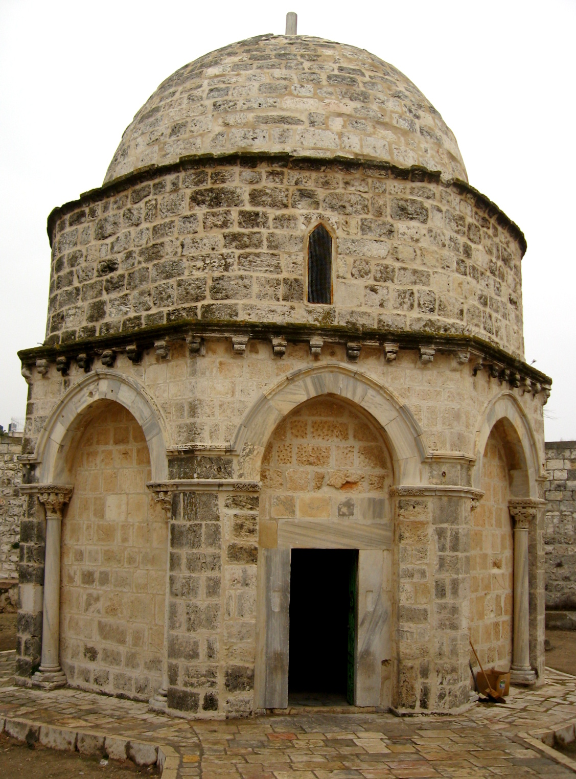 Ascension Edicule, Mount of Olives, Jerusalem.